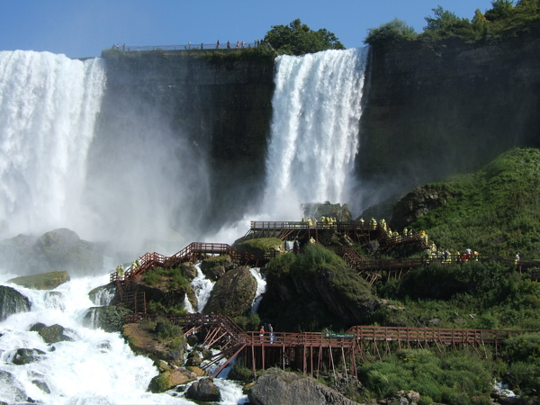 I took this photo myself in September 2005